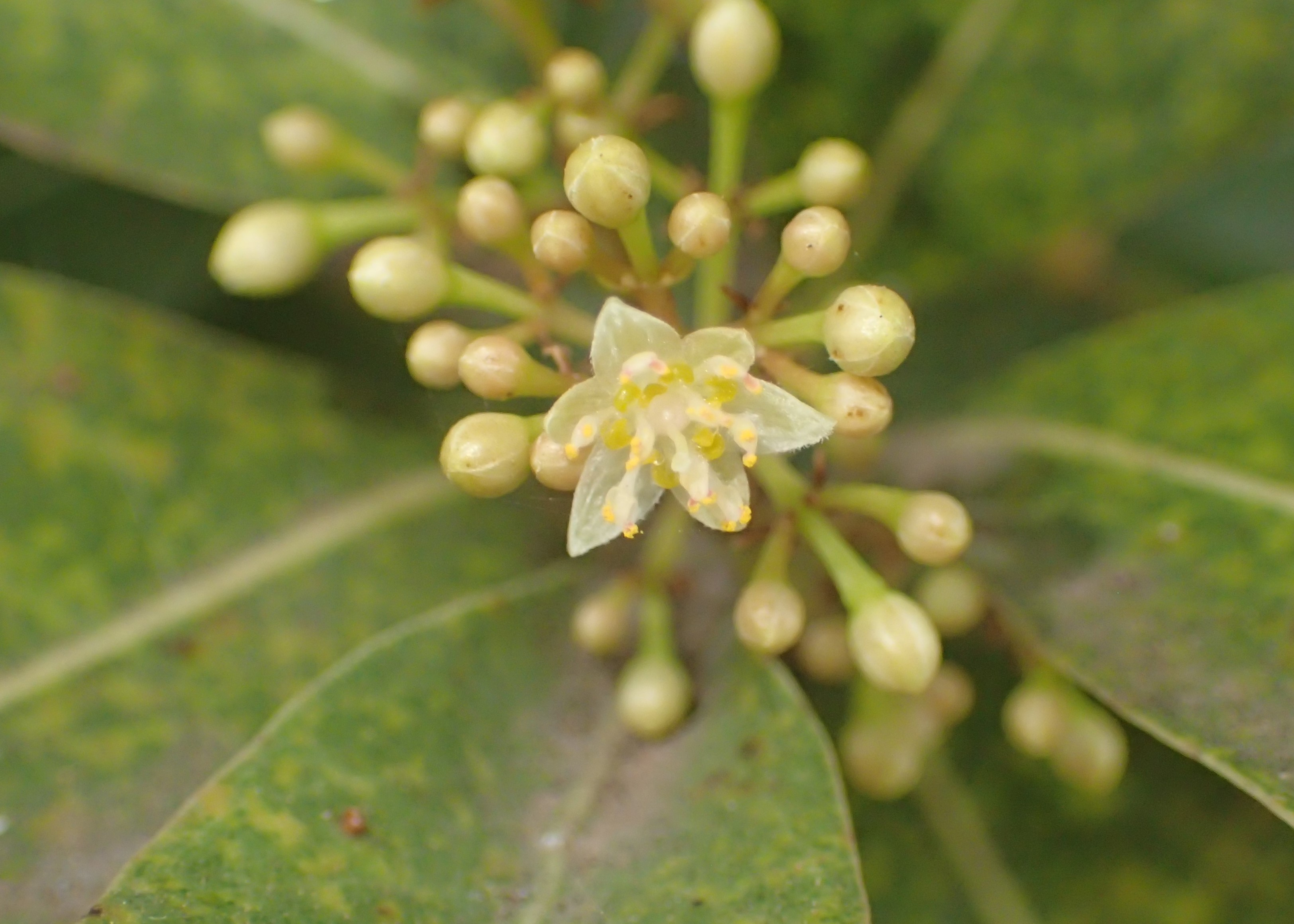 Apollonias barbujana in Jardines Juan Acosta Rodríguez, Orotava, Tenerife